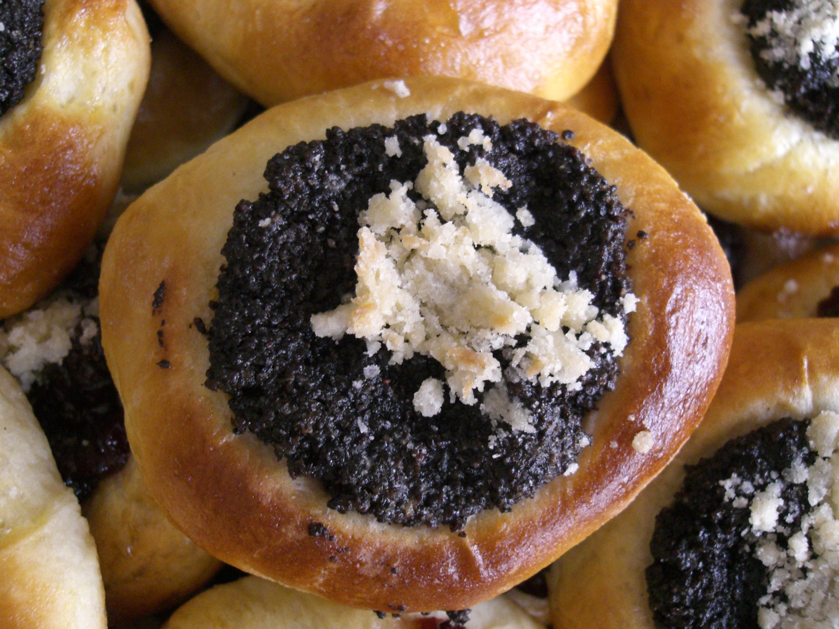 Koláček - czech sweet bread with poppy seeds, Czech Republic.